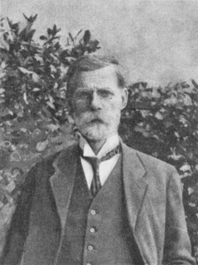 Photograph of Roland Scholl (1865–1945), Swiss chemist